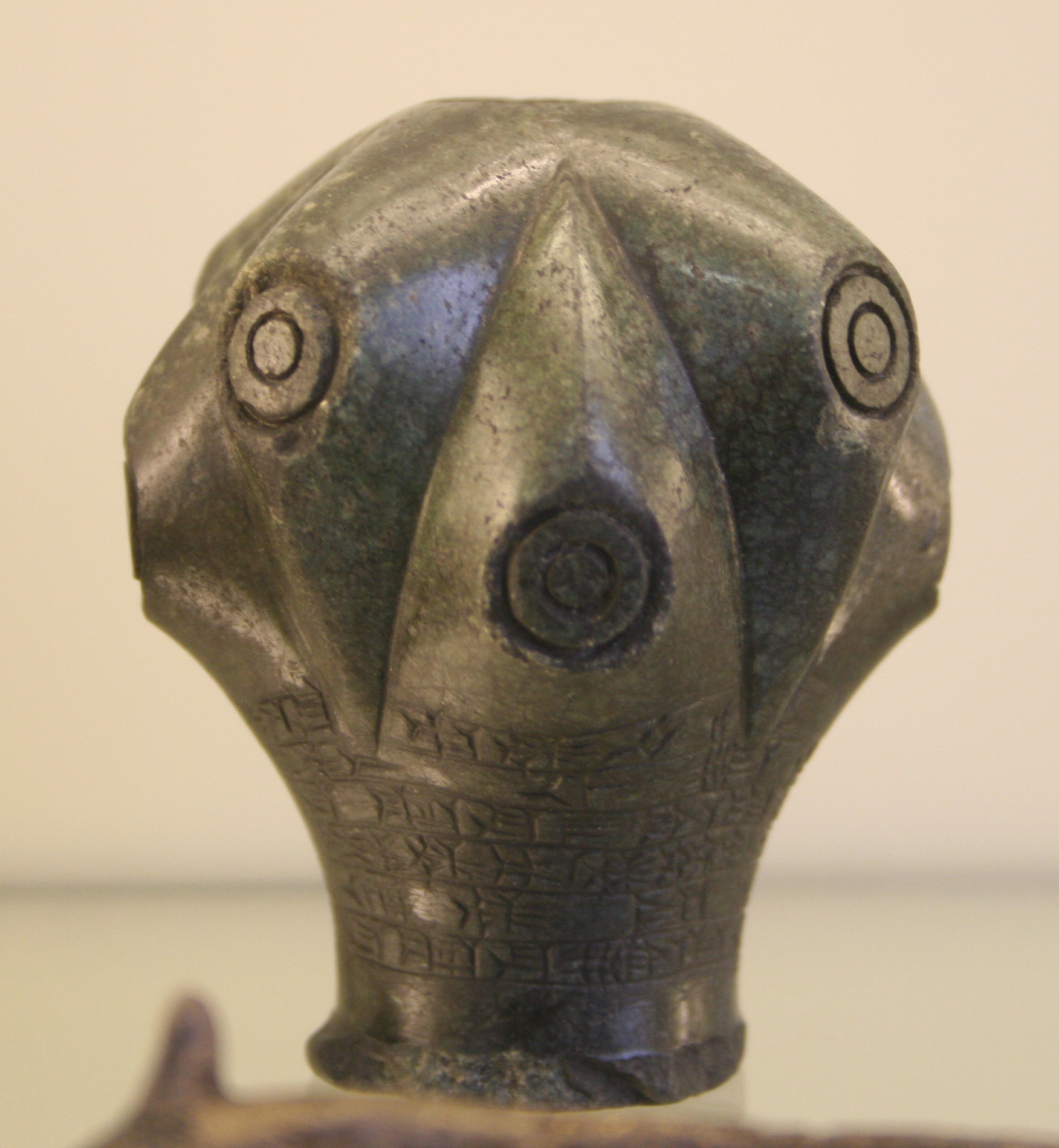 Vorderasiatisches Museum (Near East Museum), Berlin